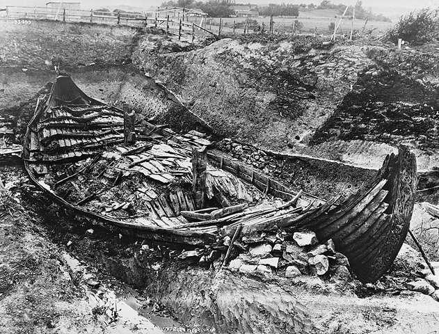 The excavation of the Oseberg Ship, Norway